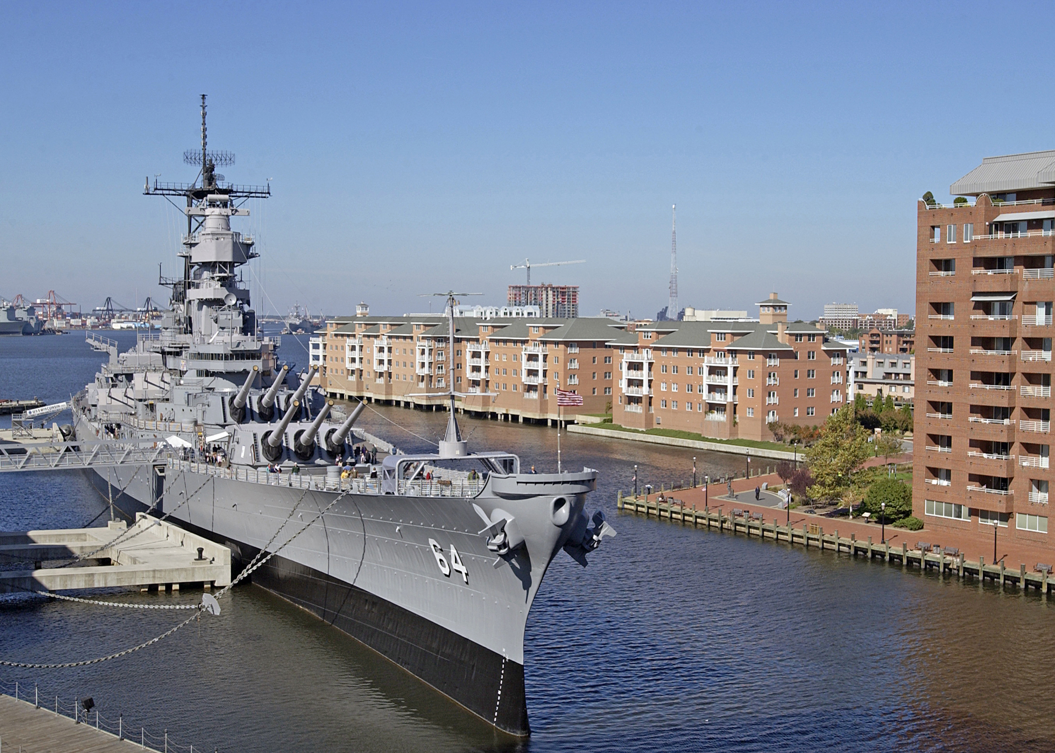 Norfolk, Va. (Nov. 3, 2005) - The battleship USS Wisconsin (BB 64) lies in its berth along the Elizabeth River at the maritime museum Nauticus, in downtown Norfolk, Va. Having fought her first battle in support of the 1945 landings of Iwo Jima, this 60-year-old warrior is now a museum showcase for people of all ages to relive history and learn more about the contributions her crew made to protect freedom. U.S. Navy photo by Photographer's Mate 2nd Class Teresa J. Donnelly (RELEASED)